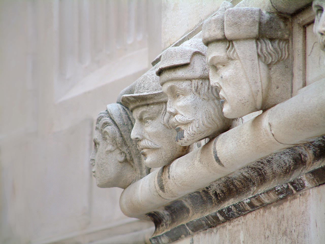 Šibenik (Sibenik), cathedral, Croatia UNESCO site, 2005.